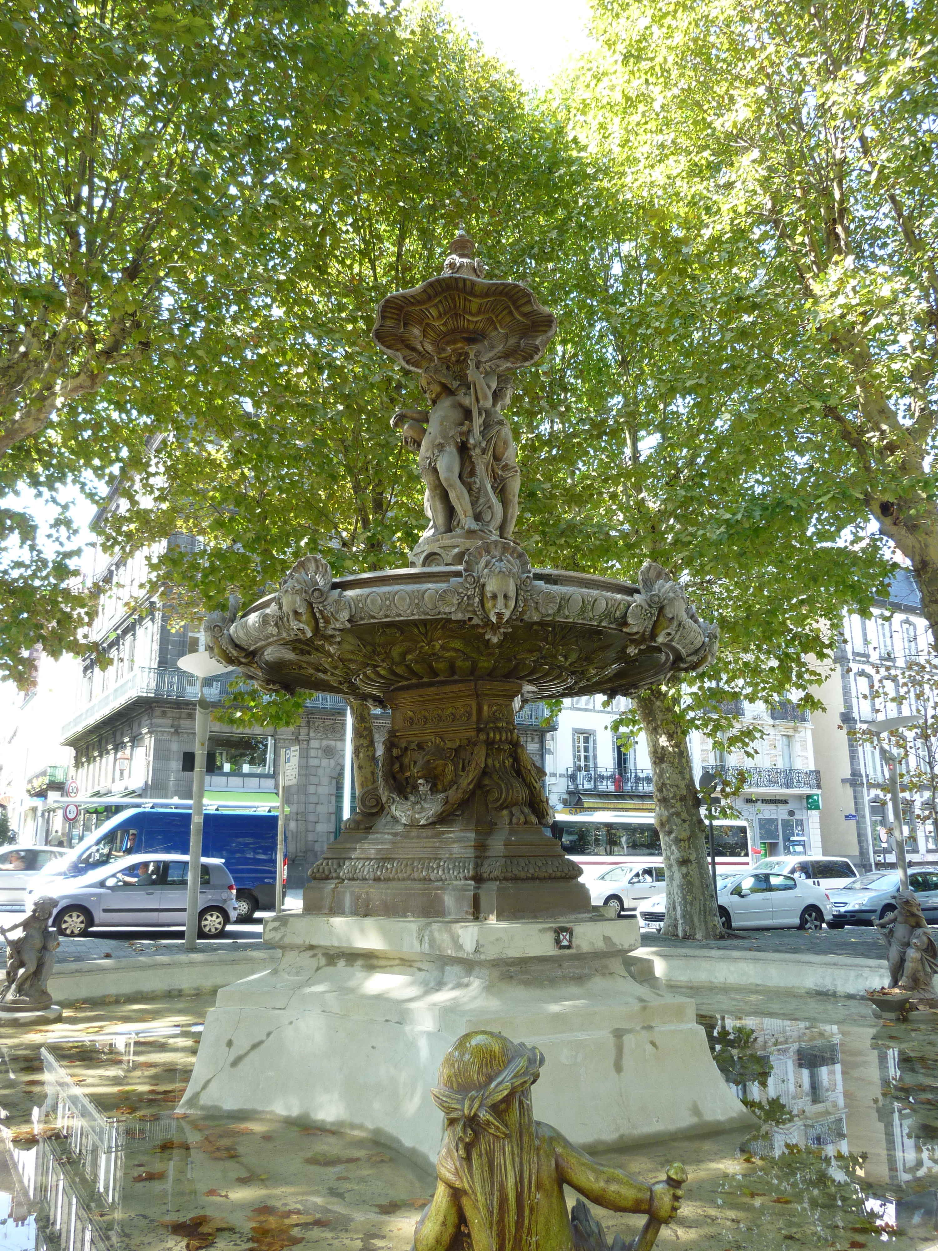 Delille fountain, on the Delille square in Clermont-Ferrand. Historical monument.